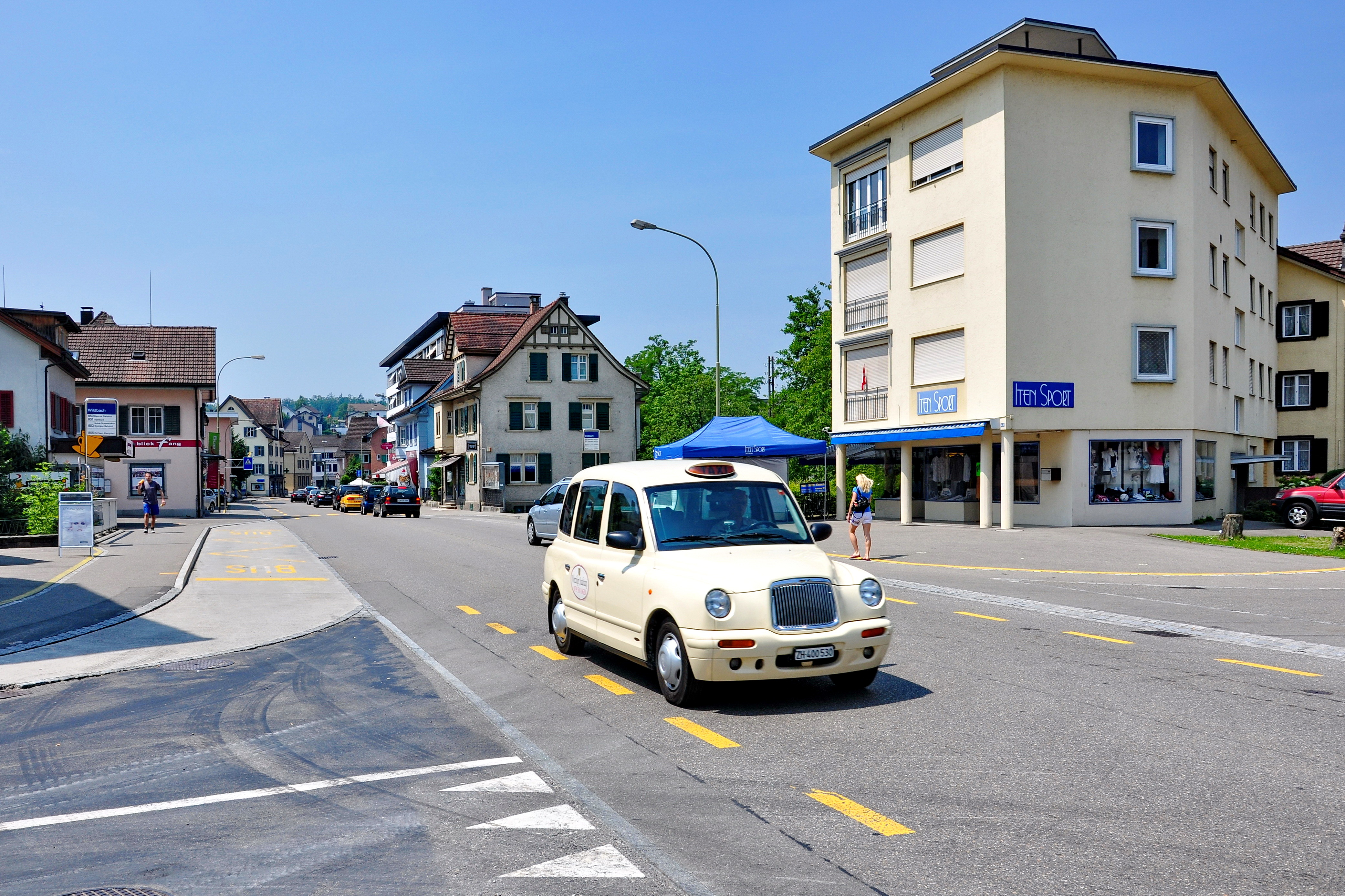 Bahnhofstrasse in Wetzikon (Switzerland)